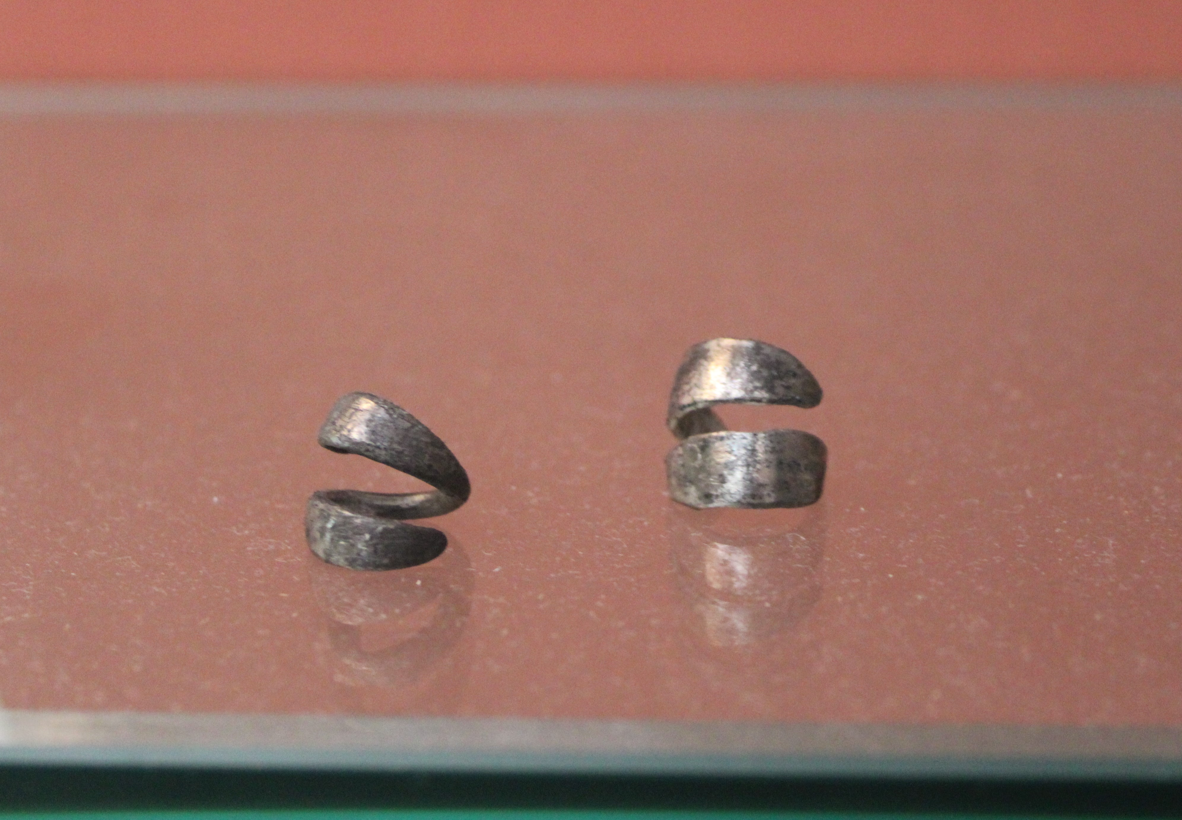 Two silver rings, which were used as currency in Ancient Mesopotamia, by weight. From Tell Taya (Northern Iraq), c. 2250 BC (Akkadian Empire period). ME 141616-7.